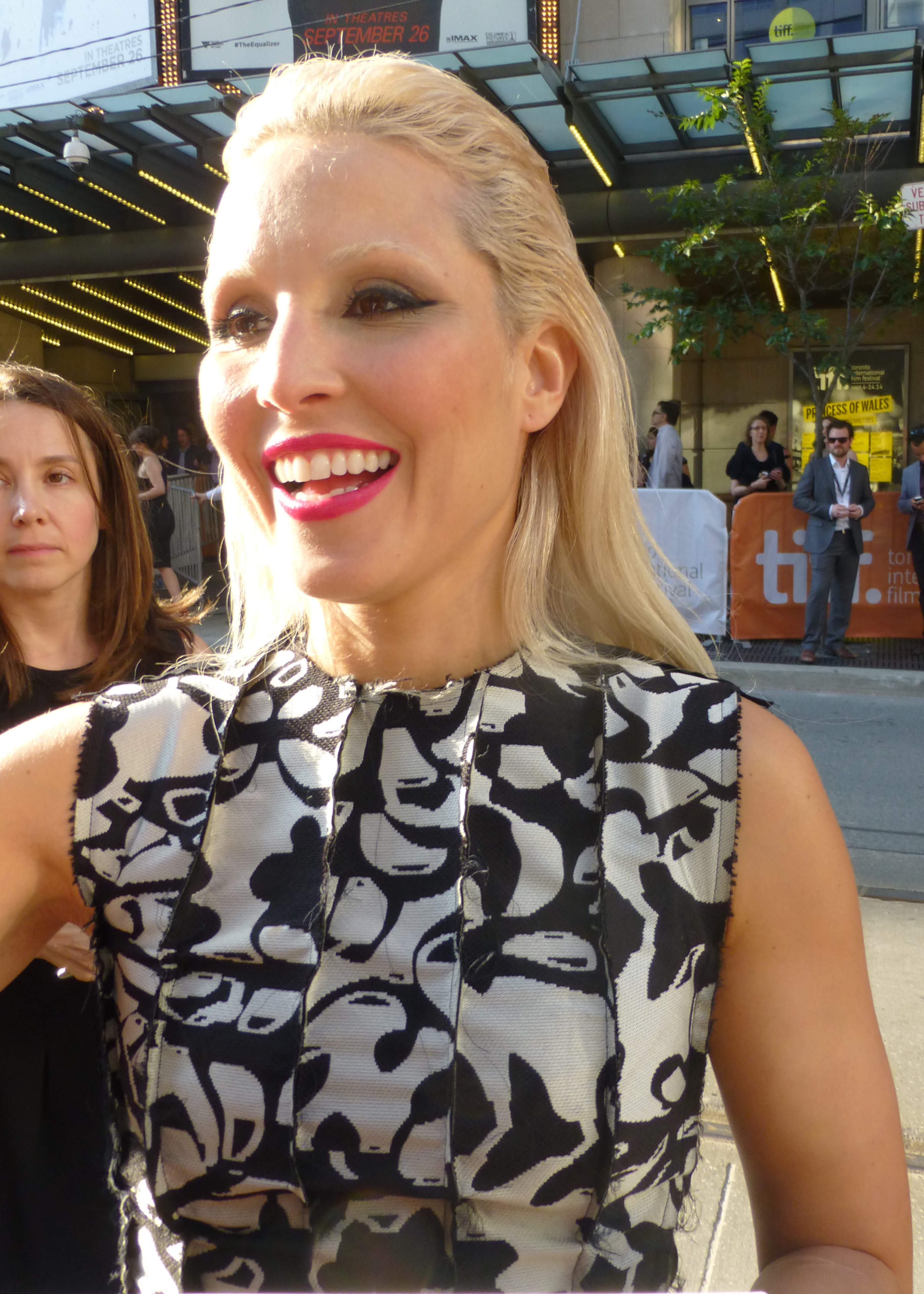 Noomi Rapace at the premiere of The Drop, 2014 Toronto Film Festival